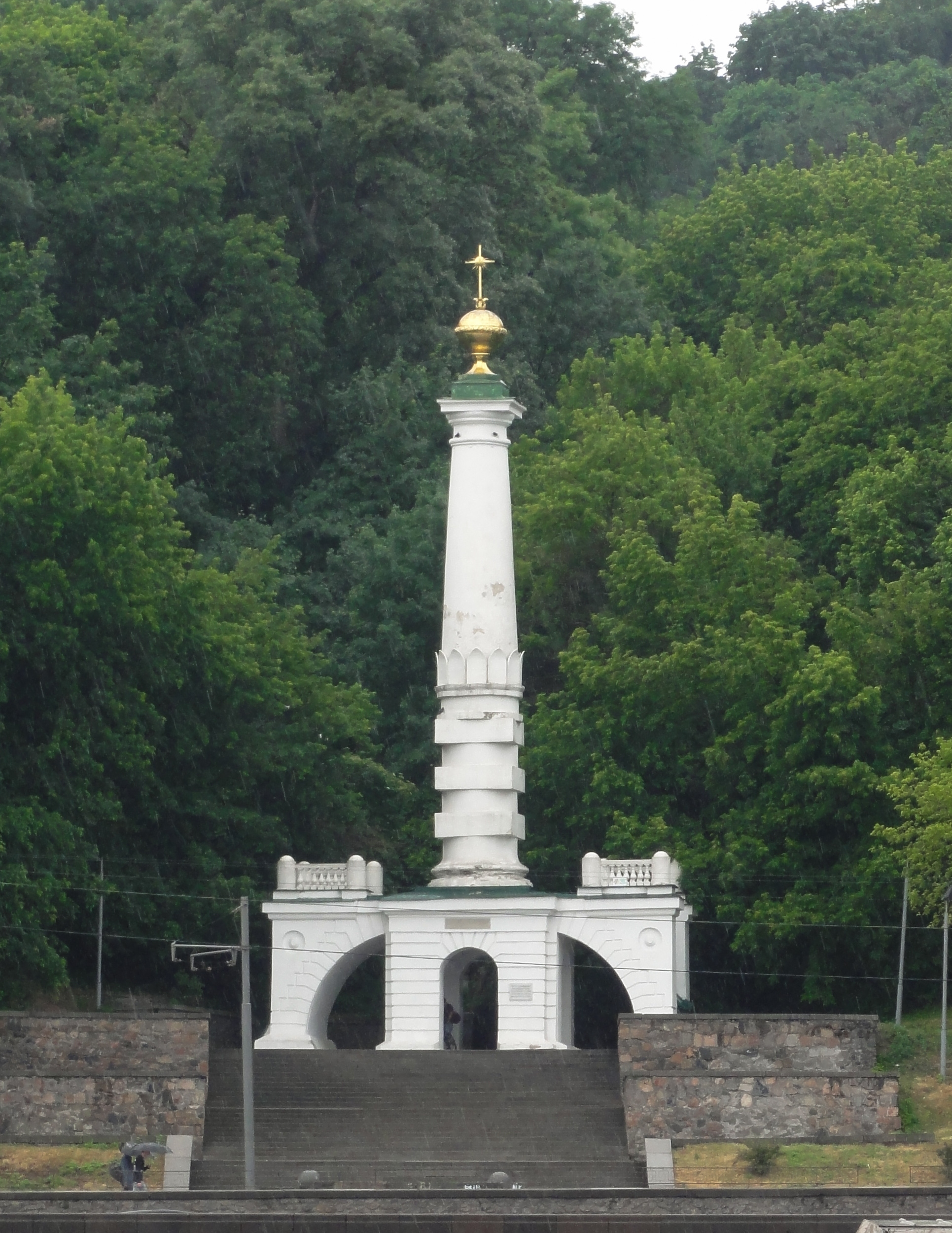 Read the story of this trip on !